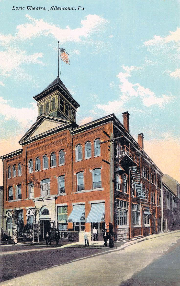 1905 postcard photo of the Lyric Theater, now called Miller Symphony Hall. Located at the southeast corner of North Sixth and Court Streets, in 1959, the building was purchased by the Allentown Symphony for use as their permanent home. The venue is listed on the National Register of Historic Places.